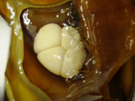 Four embryos inside a big skate (Beringraja binoculata - synonym: Raja binoculata) egg case.